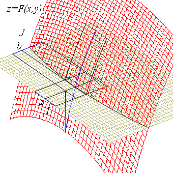 Implicit function theorem